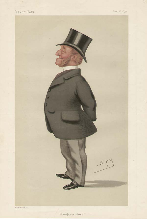 Caricature of Charles Watkin Williams-Wynn M.P. (1822-1896). Caption read "Montgomeryshire".